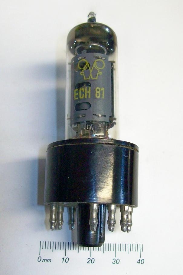 adapter to replace an ECH11 electron tube with an ECH81 / Adapter ECH11 / ECH81